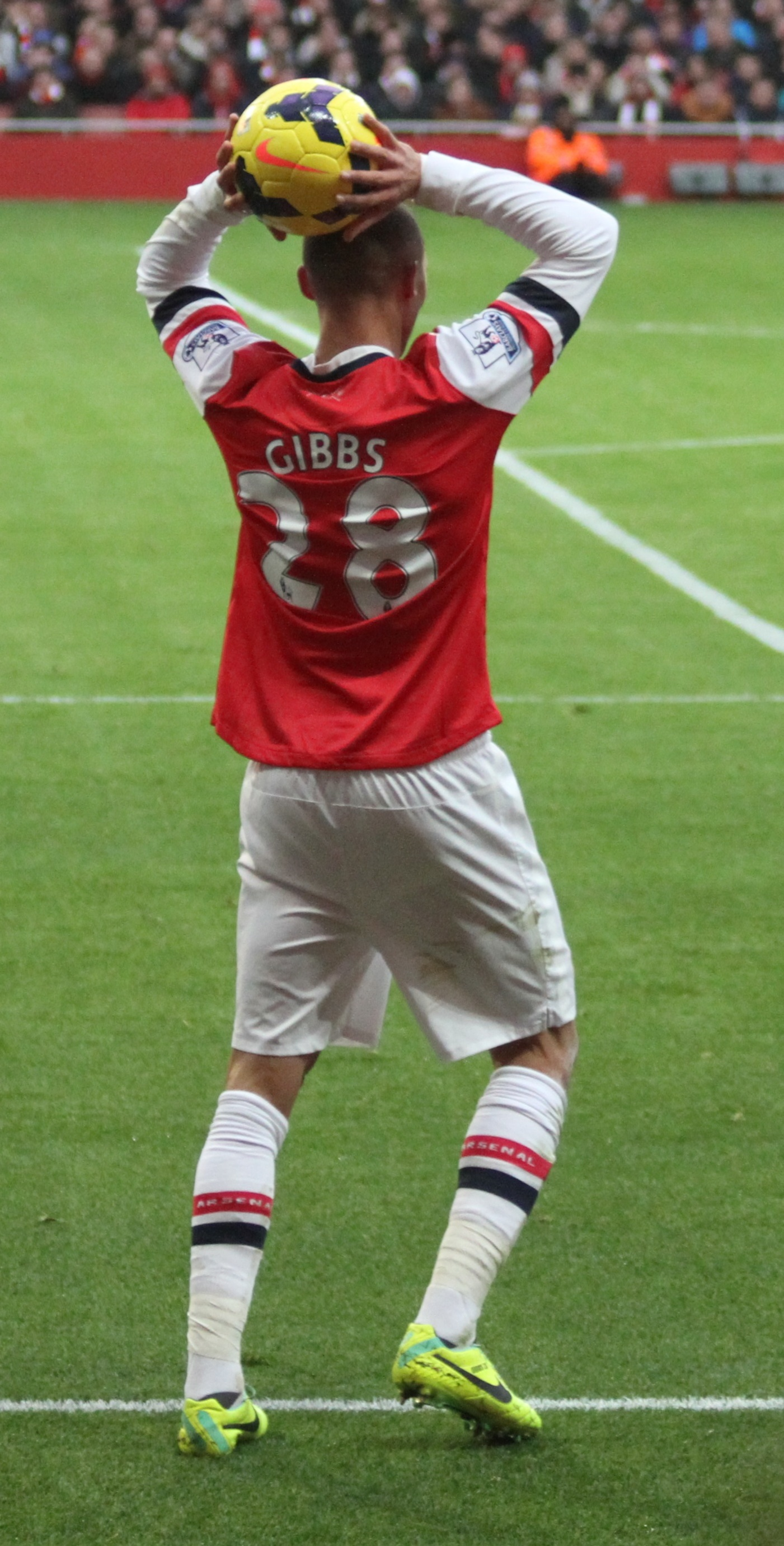 Kieran Gibbs in 2013